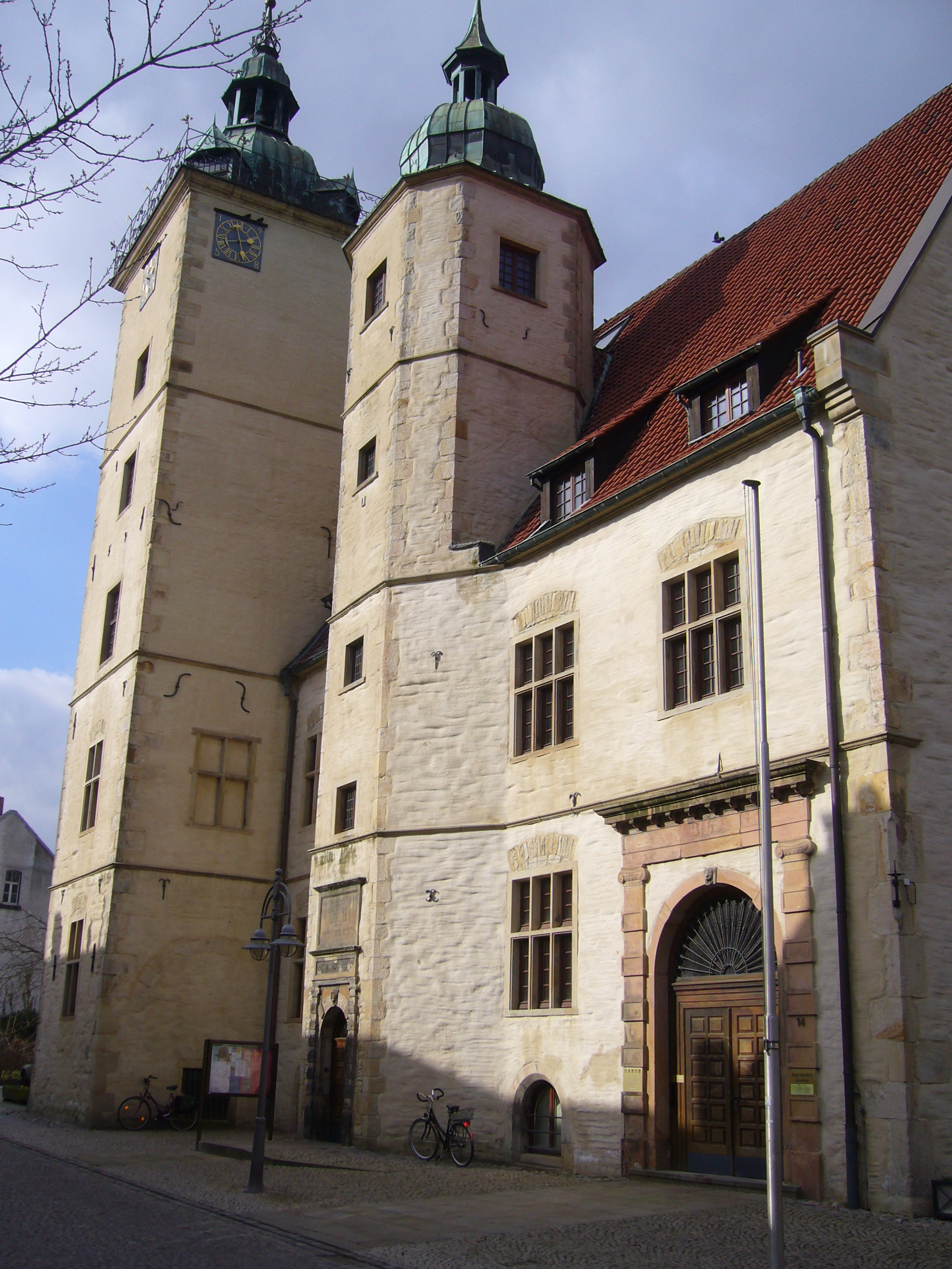 The old school of Arnoldinum in Burgsteinfurt, dating from 1591.